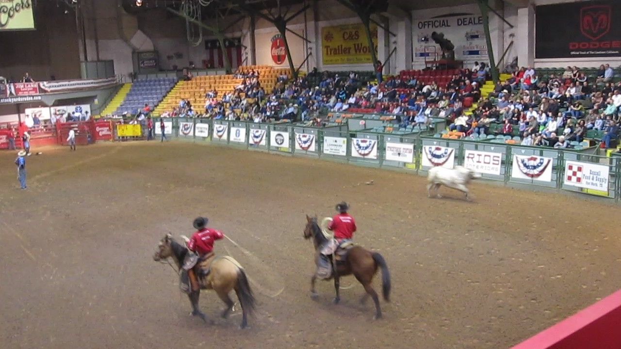 I took photo of Cowtown Coliseum inside shot in Fort Worth with a Canon camera.